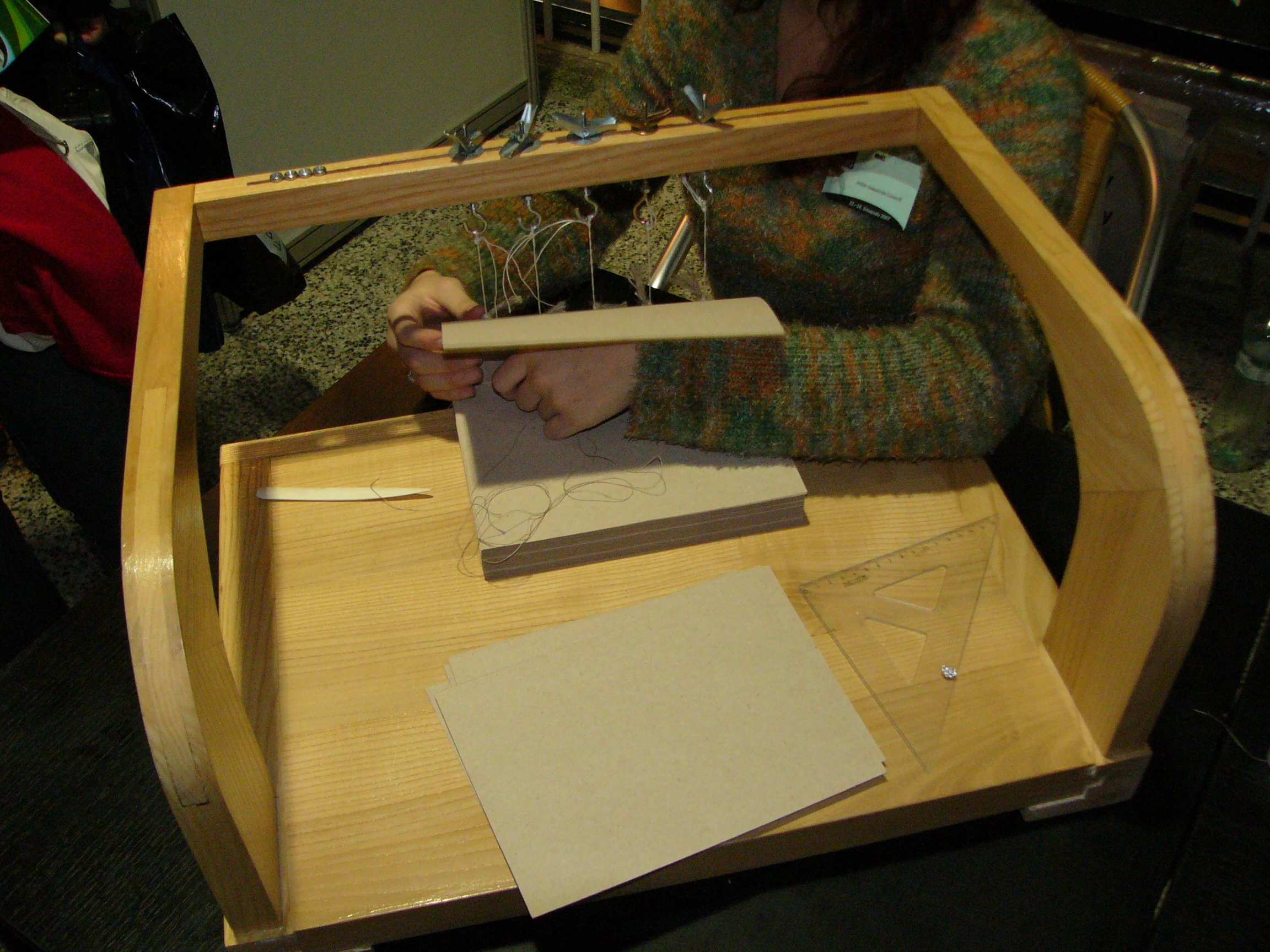 bookbinding on sewing frame. There is folding stick too.